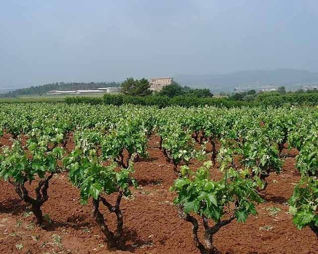 Photo from Artés (Bages)